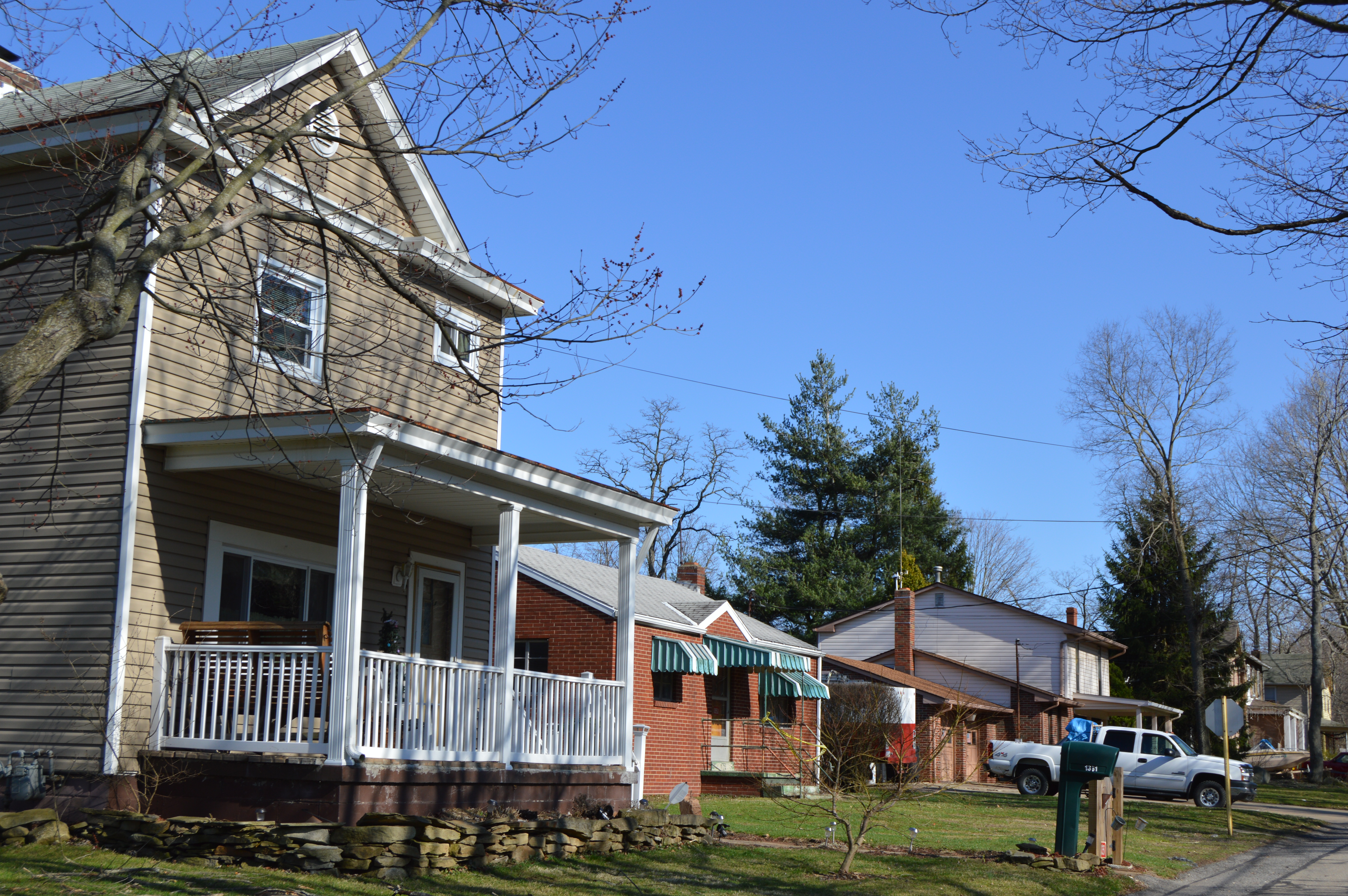 Houses on the river (eastern) side of Front Street at the Mill Street intersection in the Glenwillard neighborhood of Crescent Township, Allegheny County, Pennsylvania, United States.